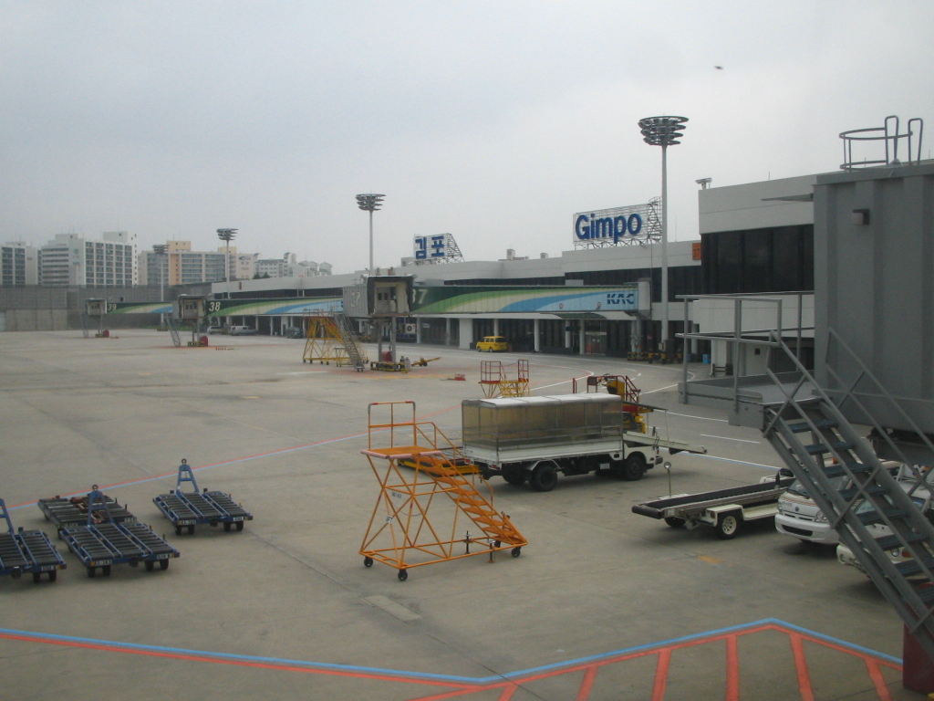 Apron of International Terminal of Gimpo Airport Photograph taken by Kyle Koh.